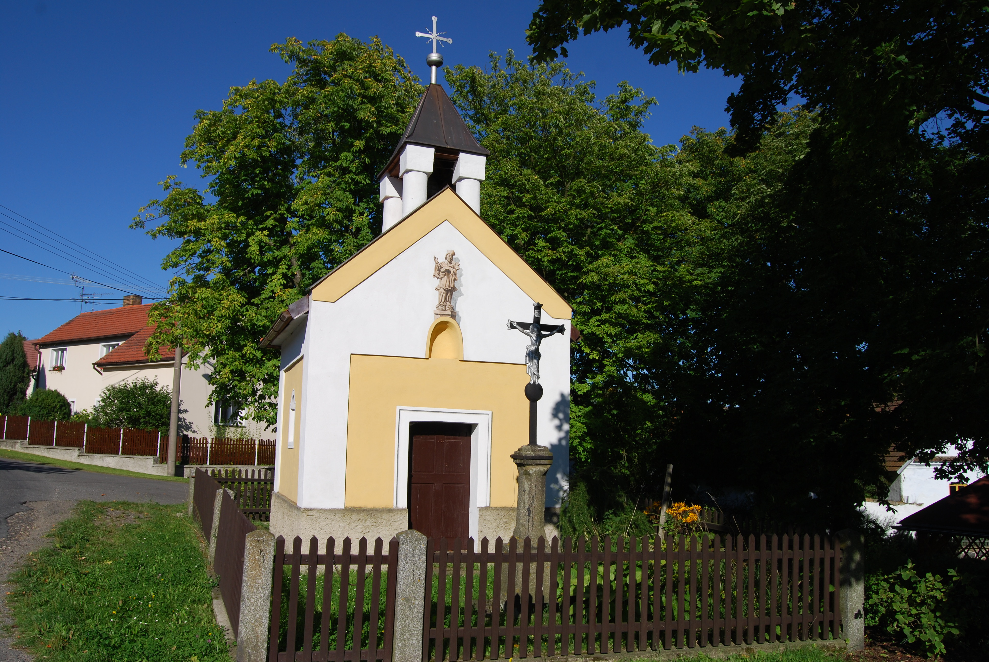 Stehlovice village in Pisek District, Czech Republic. Chapel